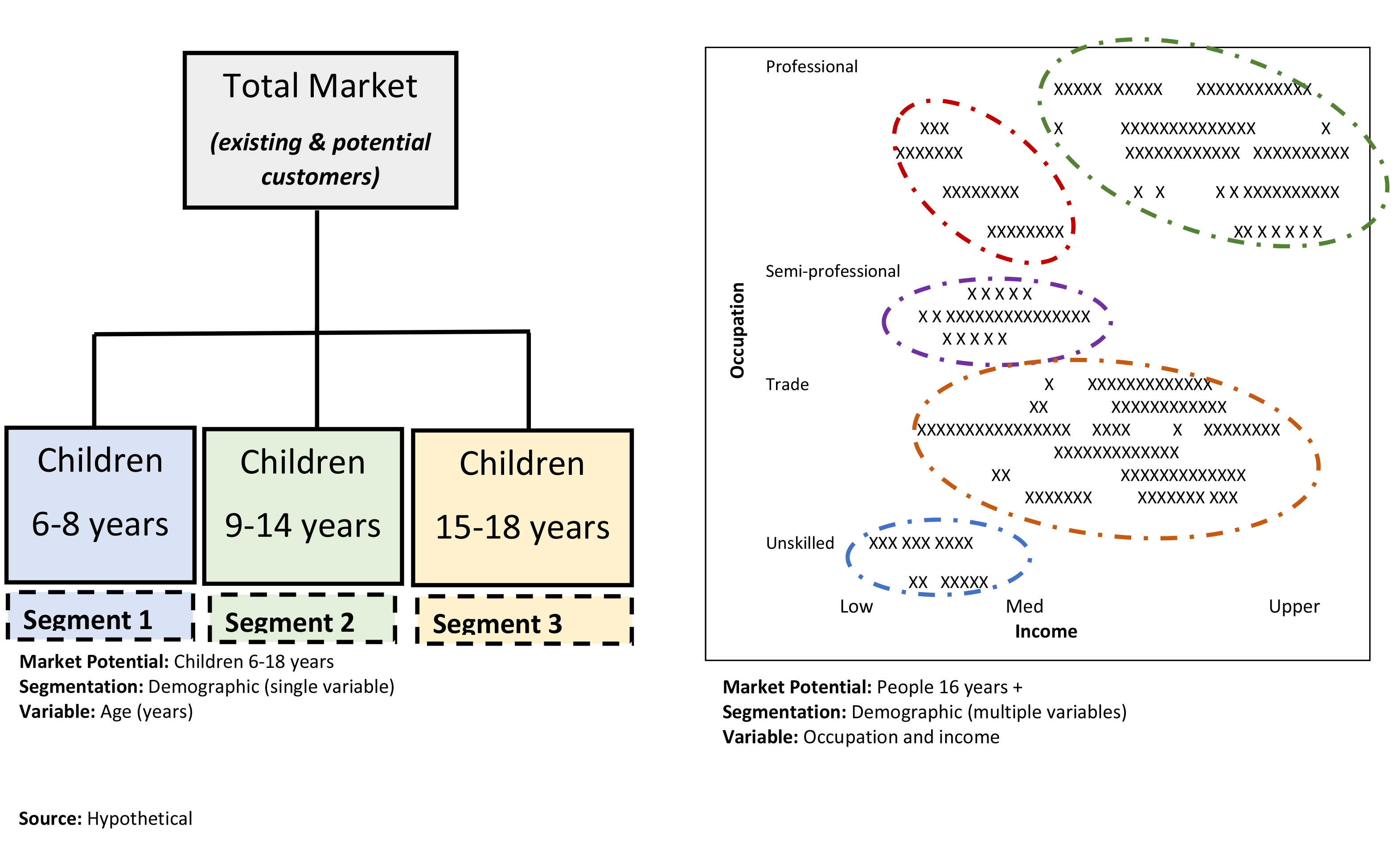 Image of two different approaches to demographic segmentation, based on hypothetical markets, and created by myself using Word, PDF and Photoshop.